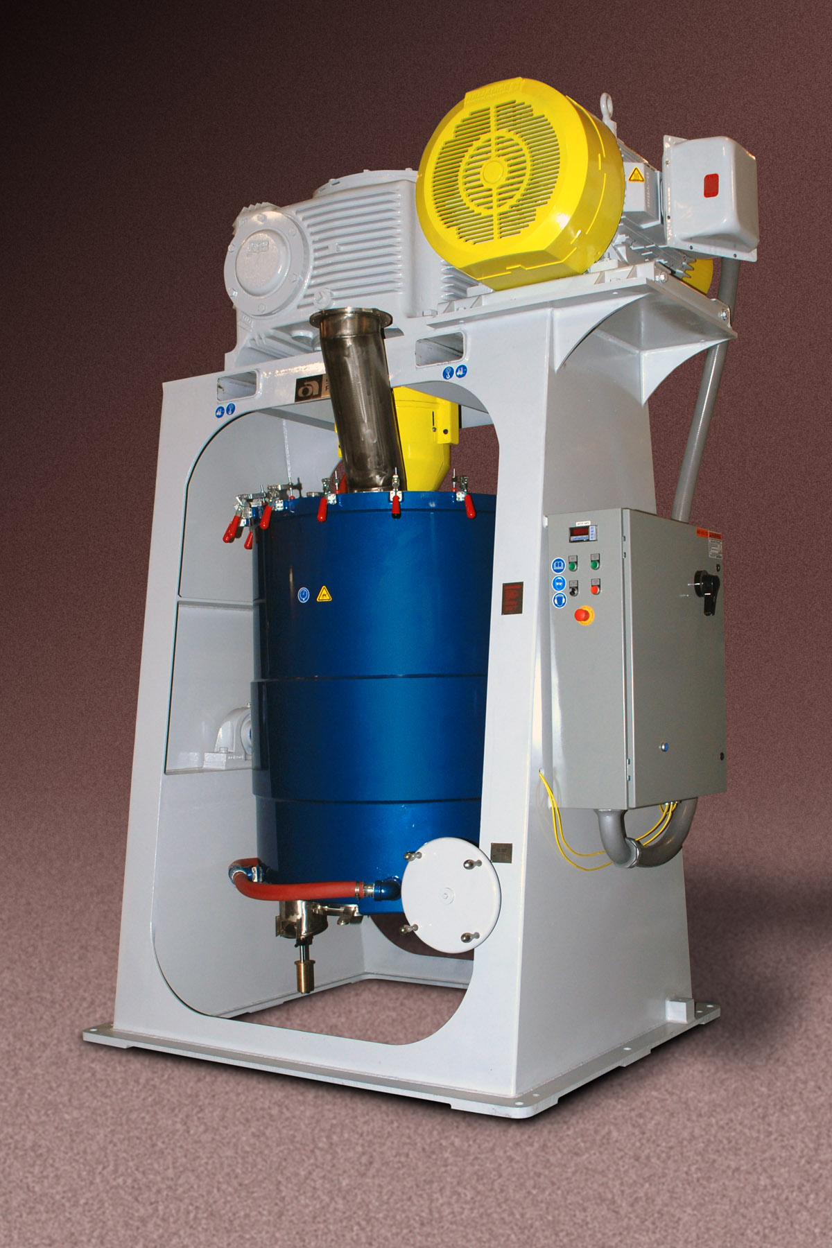 Production size Dry grinding Attritor by Union Process, Inc. for particle size reduction